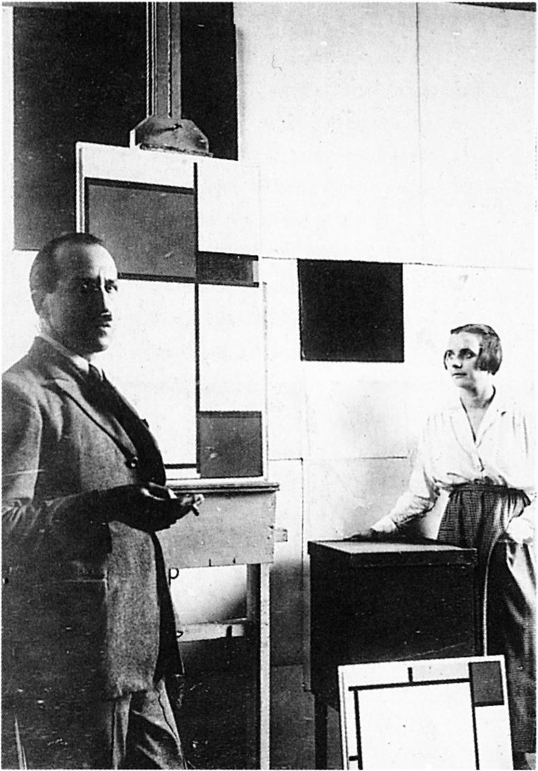 Anonymous. Piet Mondrian and Pétro (Nelly) van Doesburg in Mandrian's studio at Rue du Départ, Paris. 1923. Photo. Published (in altered form) in De Stijl, vol. VI, nr. 6/7 (1924): p. 86.